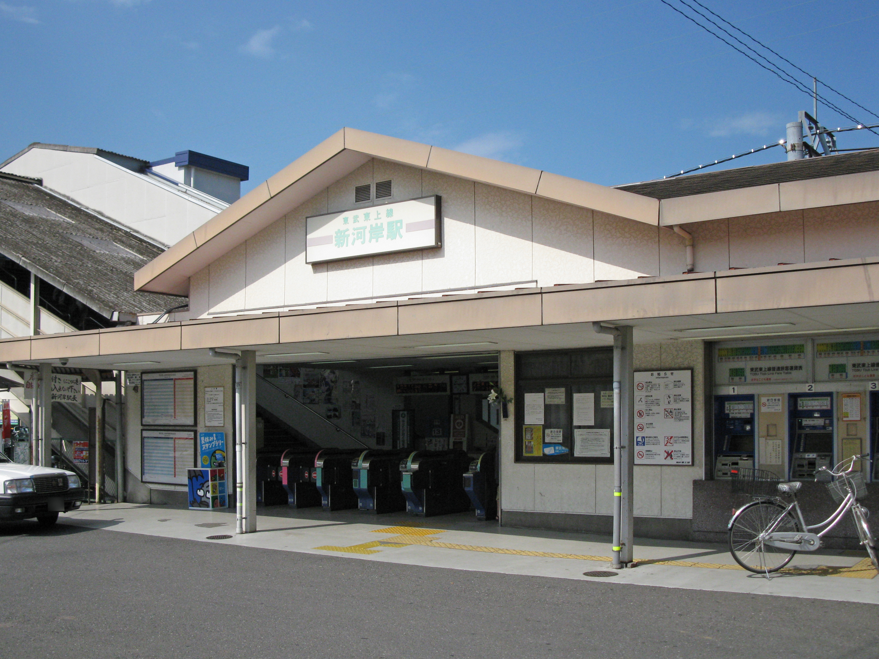 The entrance to Shingashi Station on the Tobu Tojo Line in Saitama Prefecture, Japan